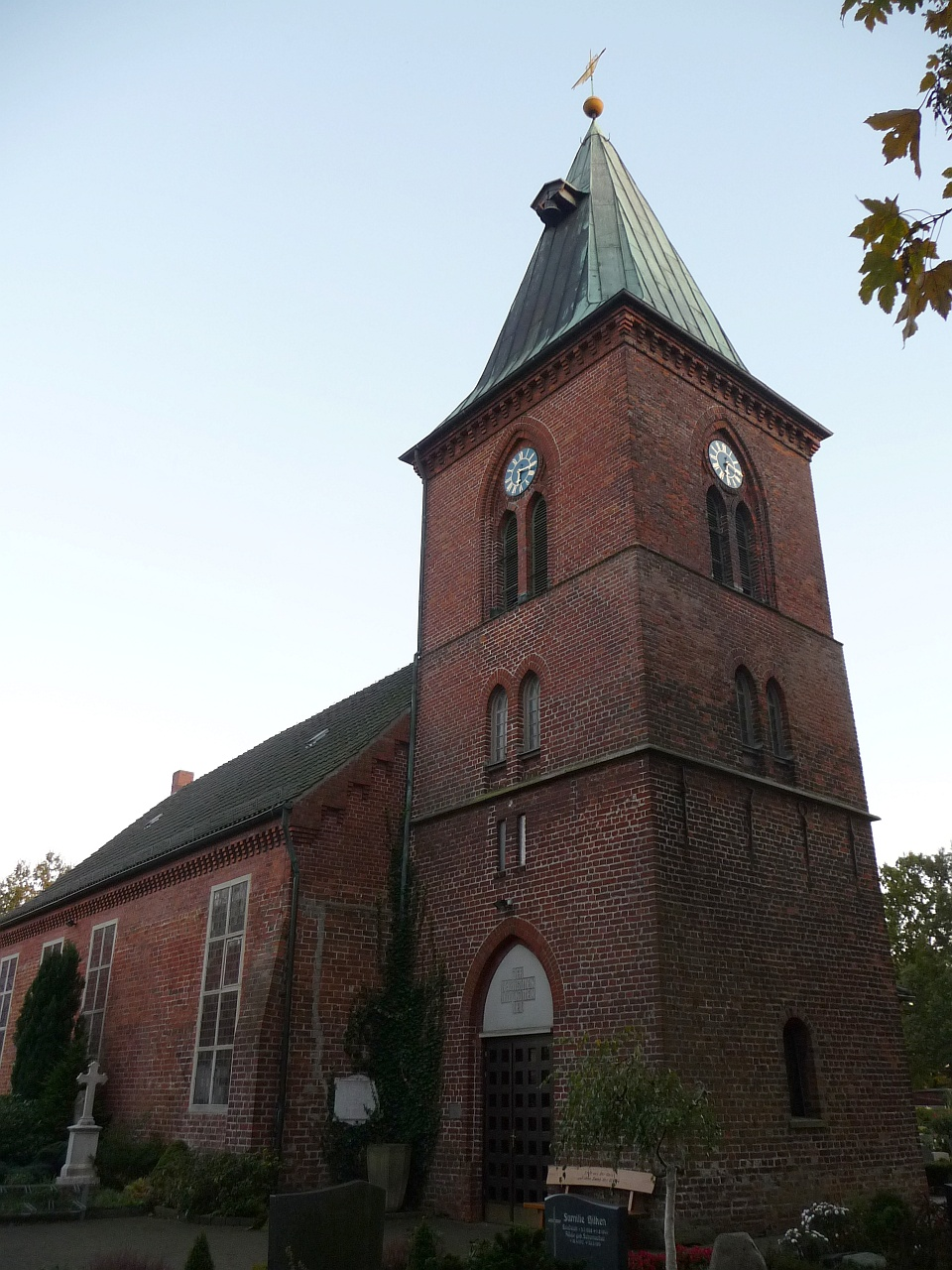 Church in Bremen-Borgfeld